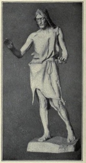 Statue of Saint John the Baptist by Sir William Goscombe John, RA.